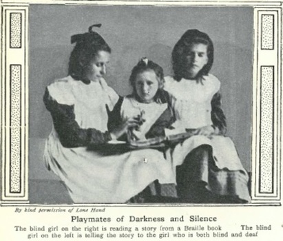 By kind permission of Lone Hand "Play mates of Darkness and Silence" Center:Alice Betteridge (Newsletter - The Gesture - The Voice of the Deaf and Dumb of Australasia No. 13, October November December 1911)